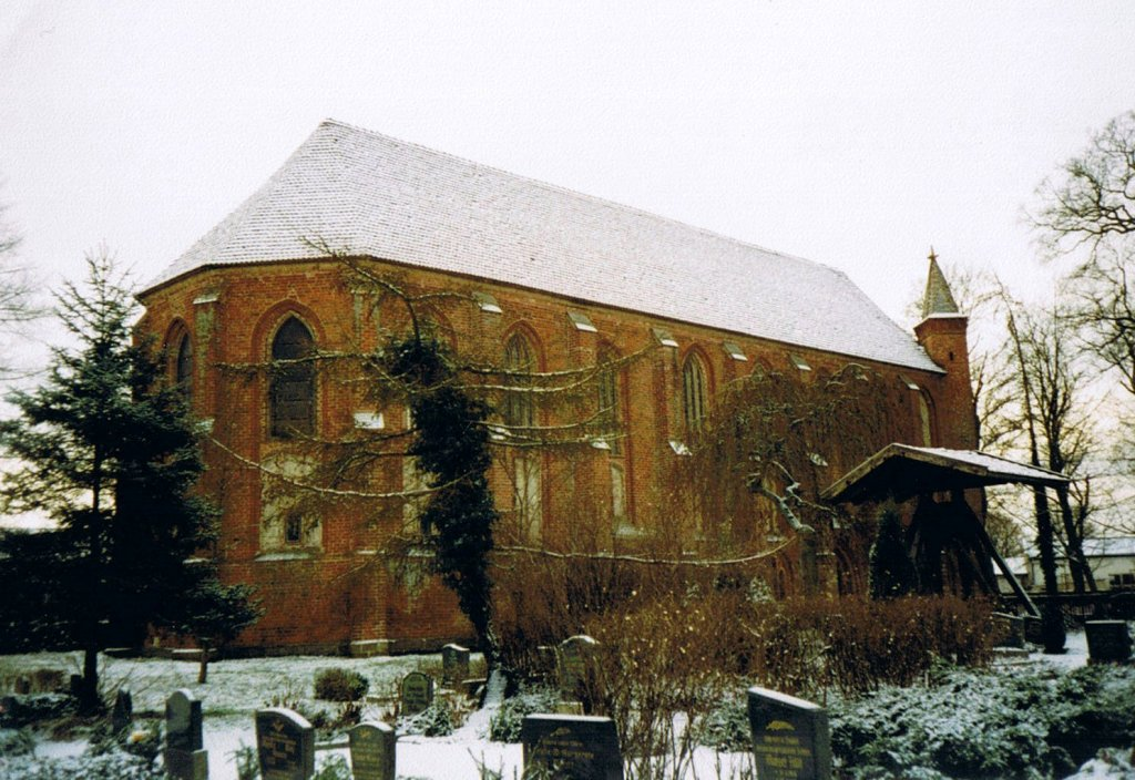 Church of the old Cistercian monastier in Wanzka, Mecklenburg-Vorpommern, Germany